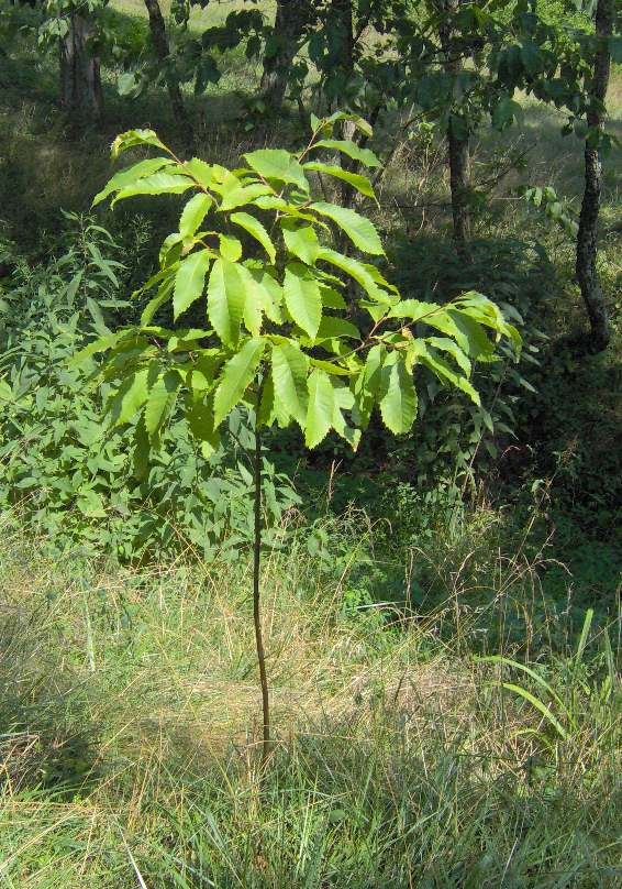 Castanea dentata field trial seedling from American Chestnut Cooperators Foundation, planted at Strouds Run State Park, Athens, Ohio; photo taken summer 2005 by John Knouse